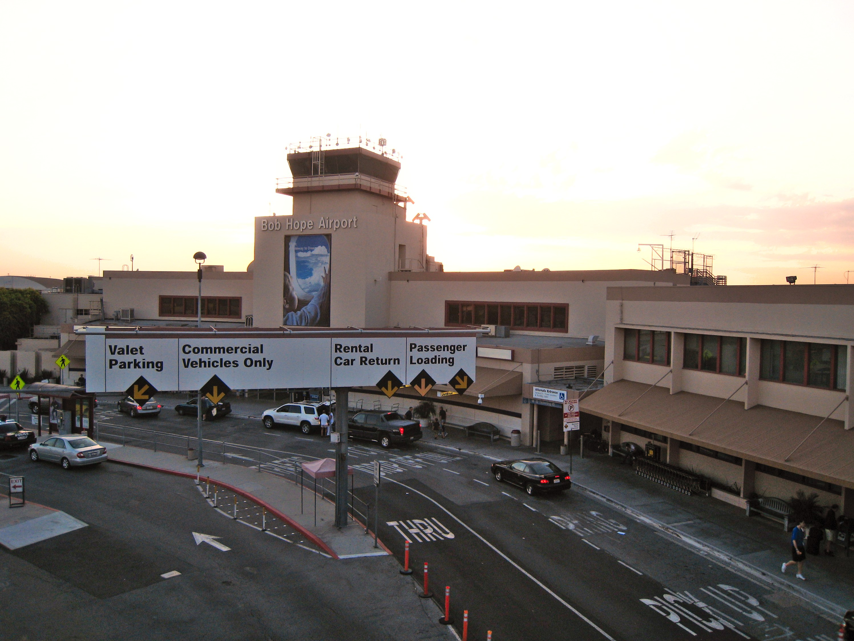 Terminal building at the Bob Hope Airport, or the Burbank-Pasadena-Glendale airport in Burbank, California